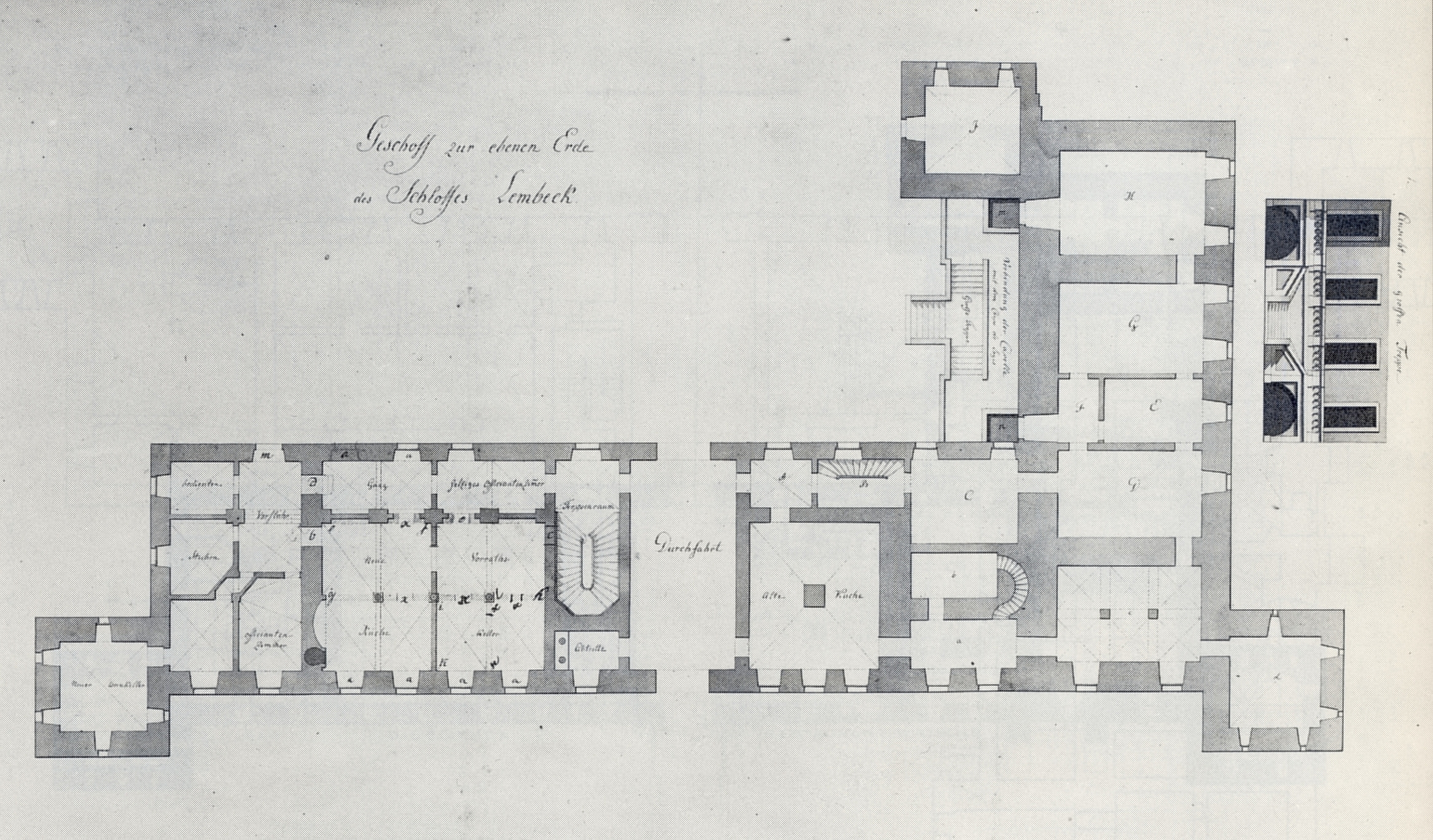 Floor plan of the basement of the Castle of Lembeck